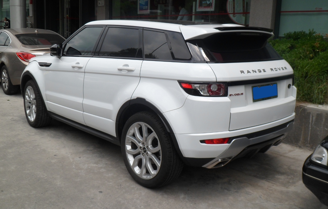 Land Rover Range Rover Evoque L538 photographed in Shanghai, China.